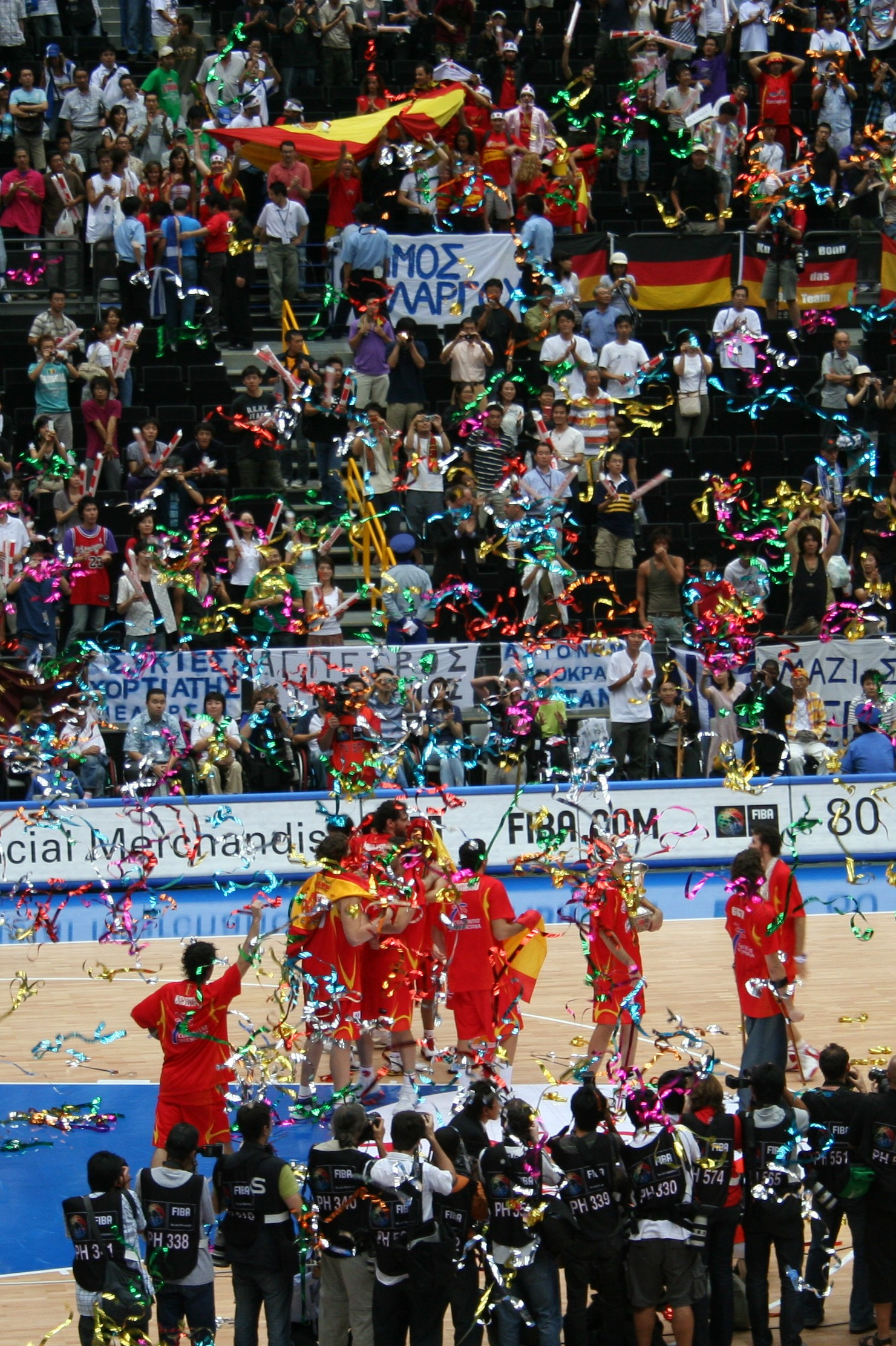 Basketball World Cup 2006 in Japan. After the final match: The winning team from Spain is being celebrated